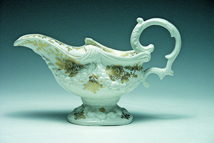 Bow porcelain sauceboat in rococco silver style, c 1750